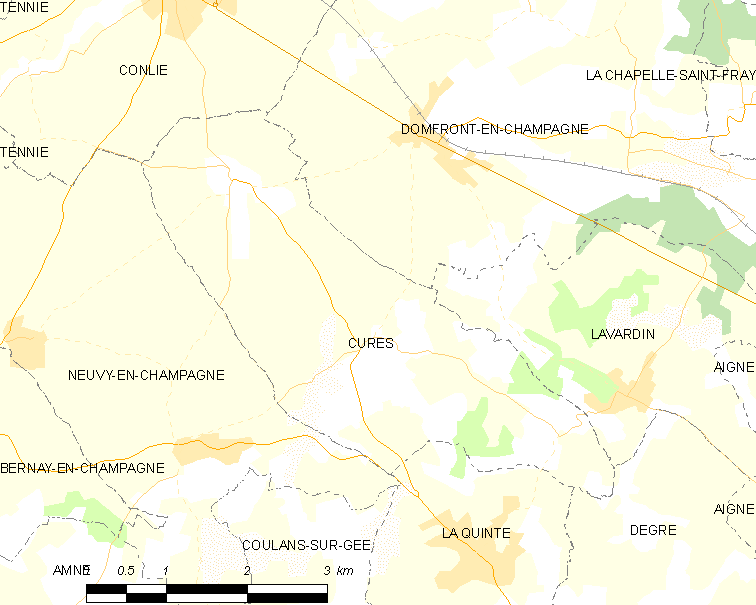 Map of French municipality